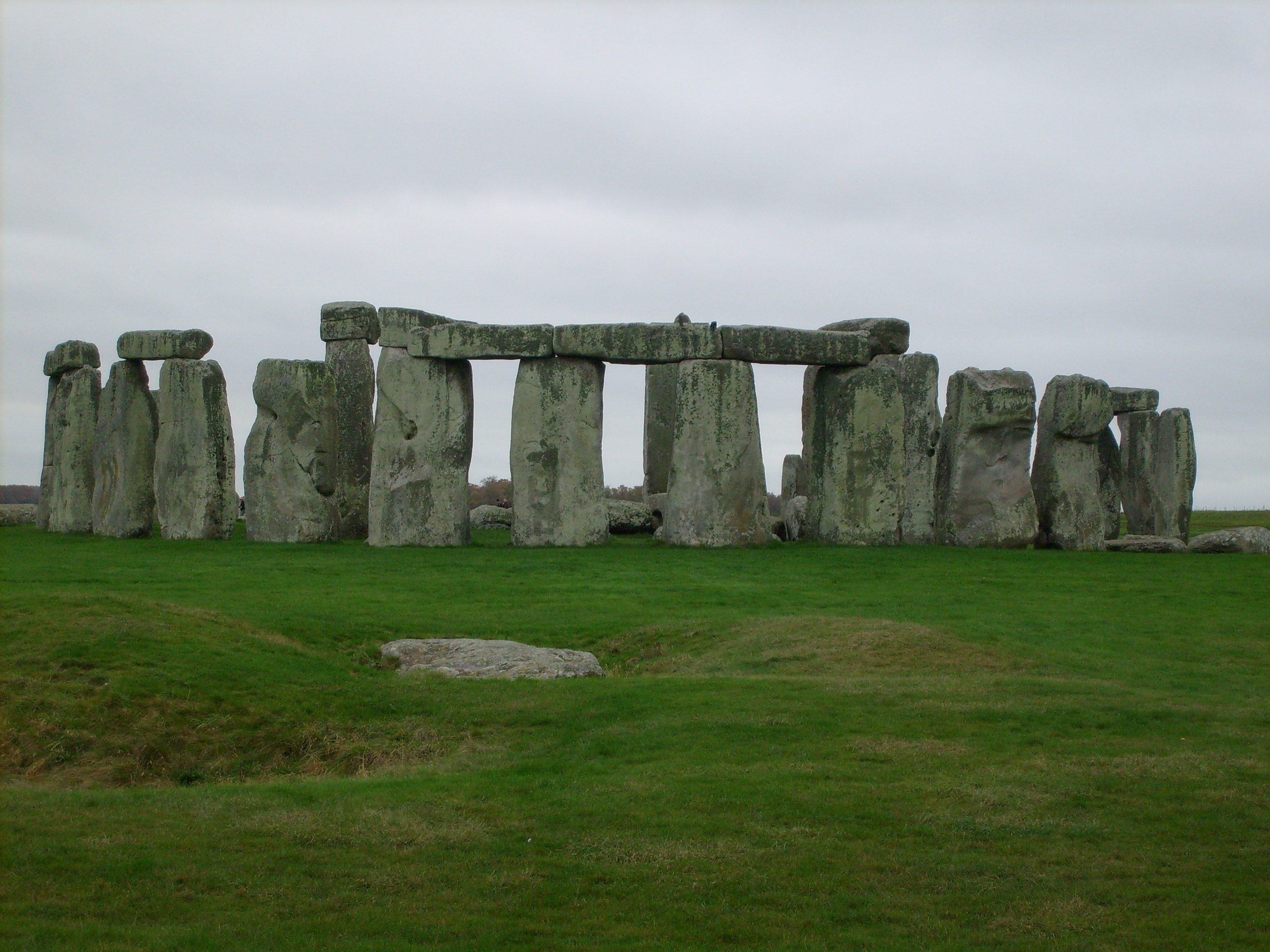 A photograph taken by myself, on 31st October 2007. Matthew Brennan